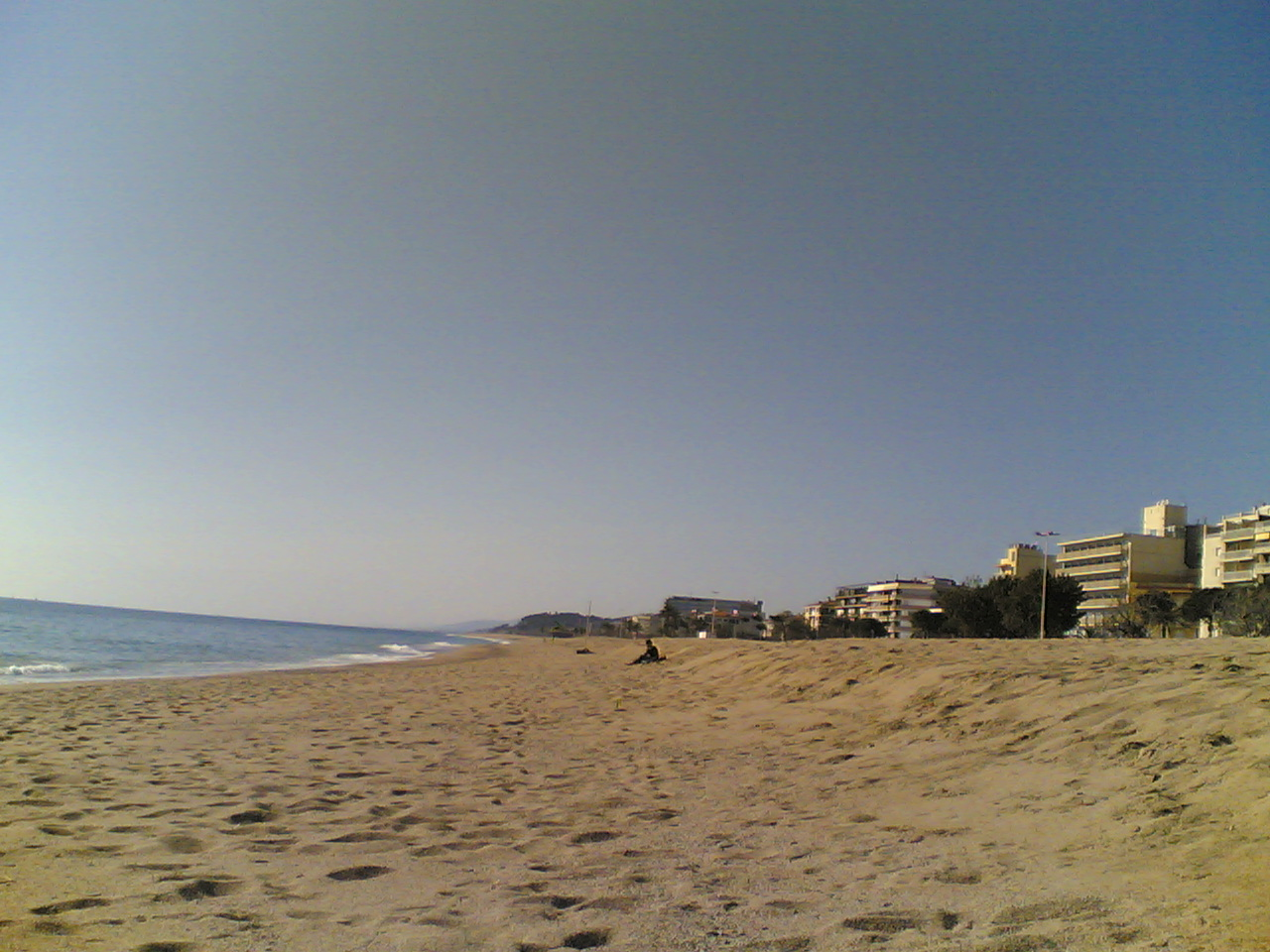 A view of Pineda de Mar beach in Catalonia, Spain